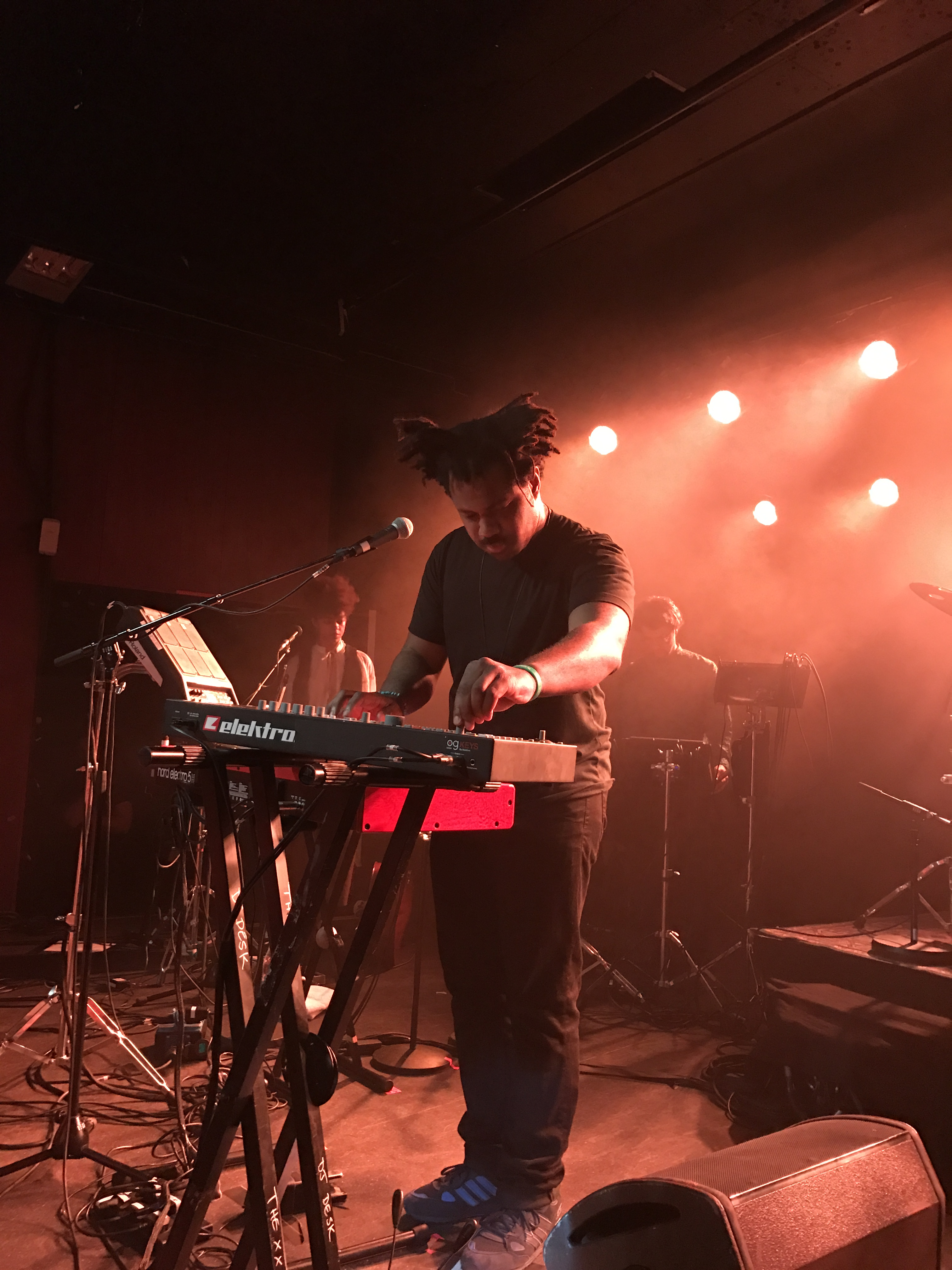 Sampha at Vega, Copenhagen